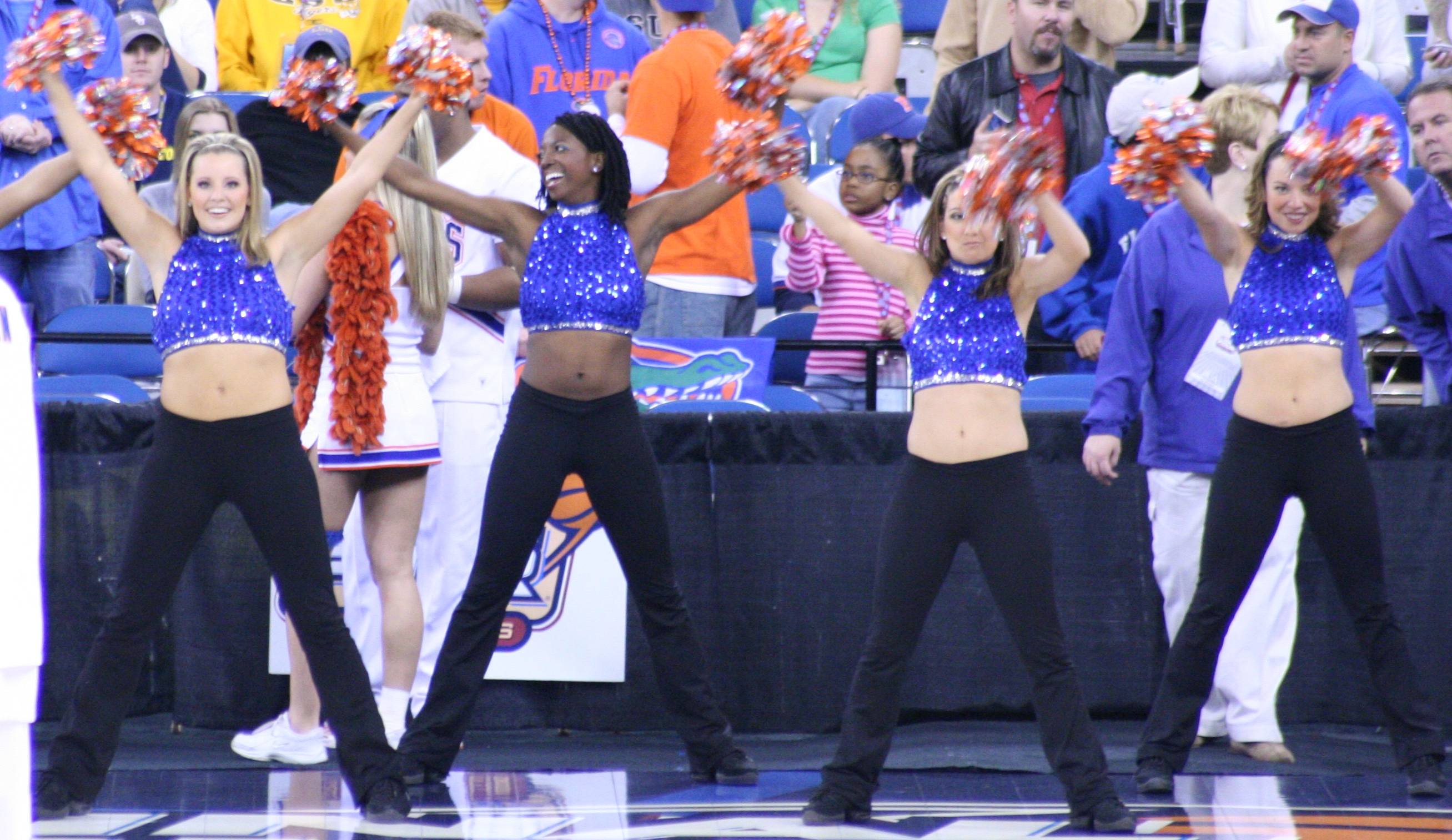 A cropped photo of the Florida Gators Dazzlers